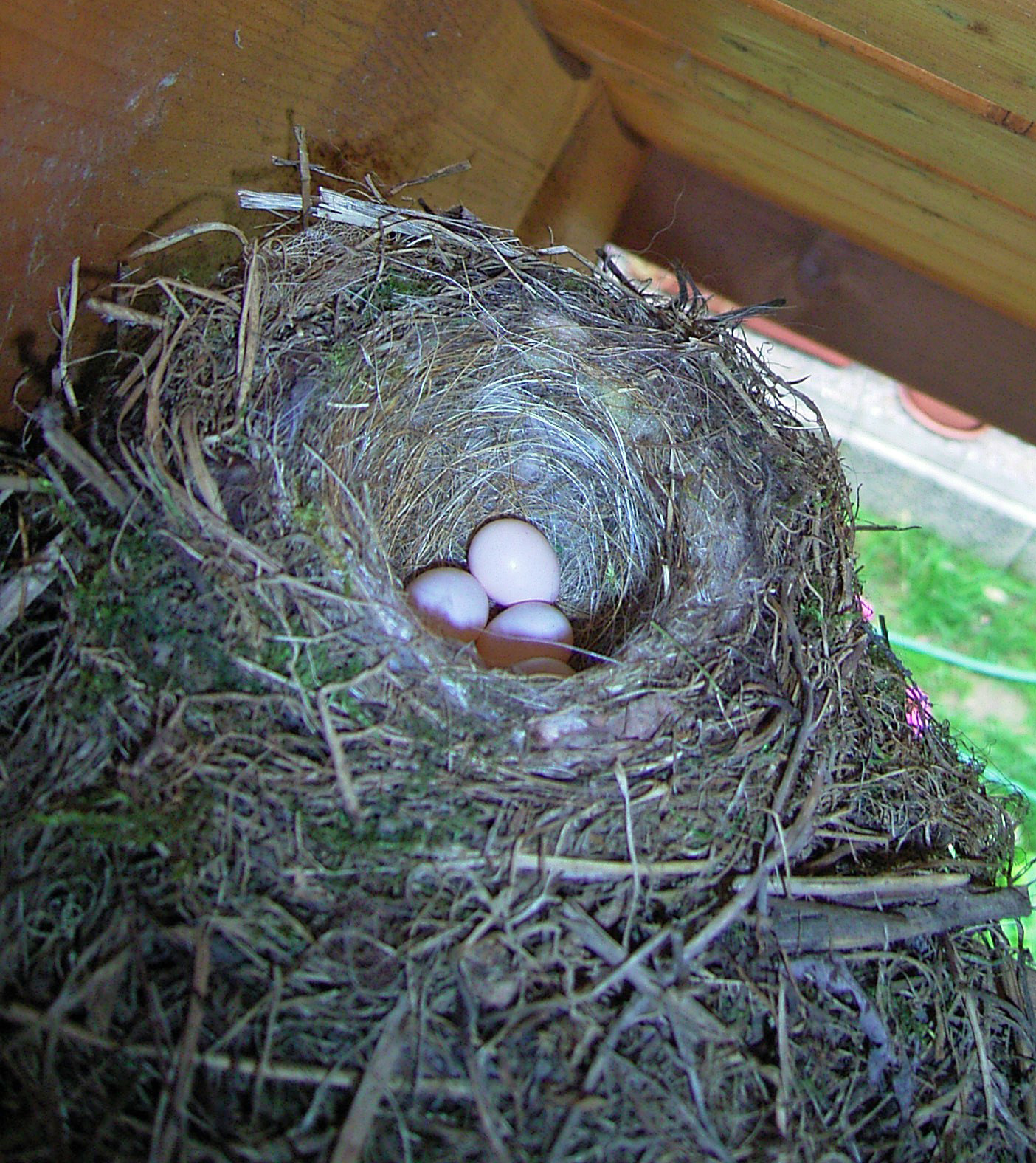 Nest of Black Redstart (Phoenicurus ochruros) with eggs